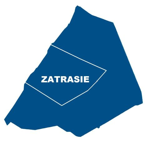 msi area sady zoliborskie with Zatrasie